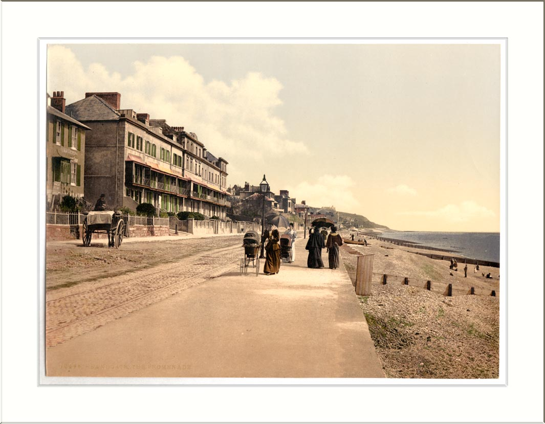 The promenade Sandgate England